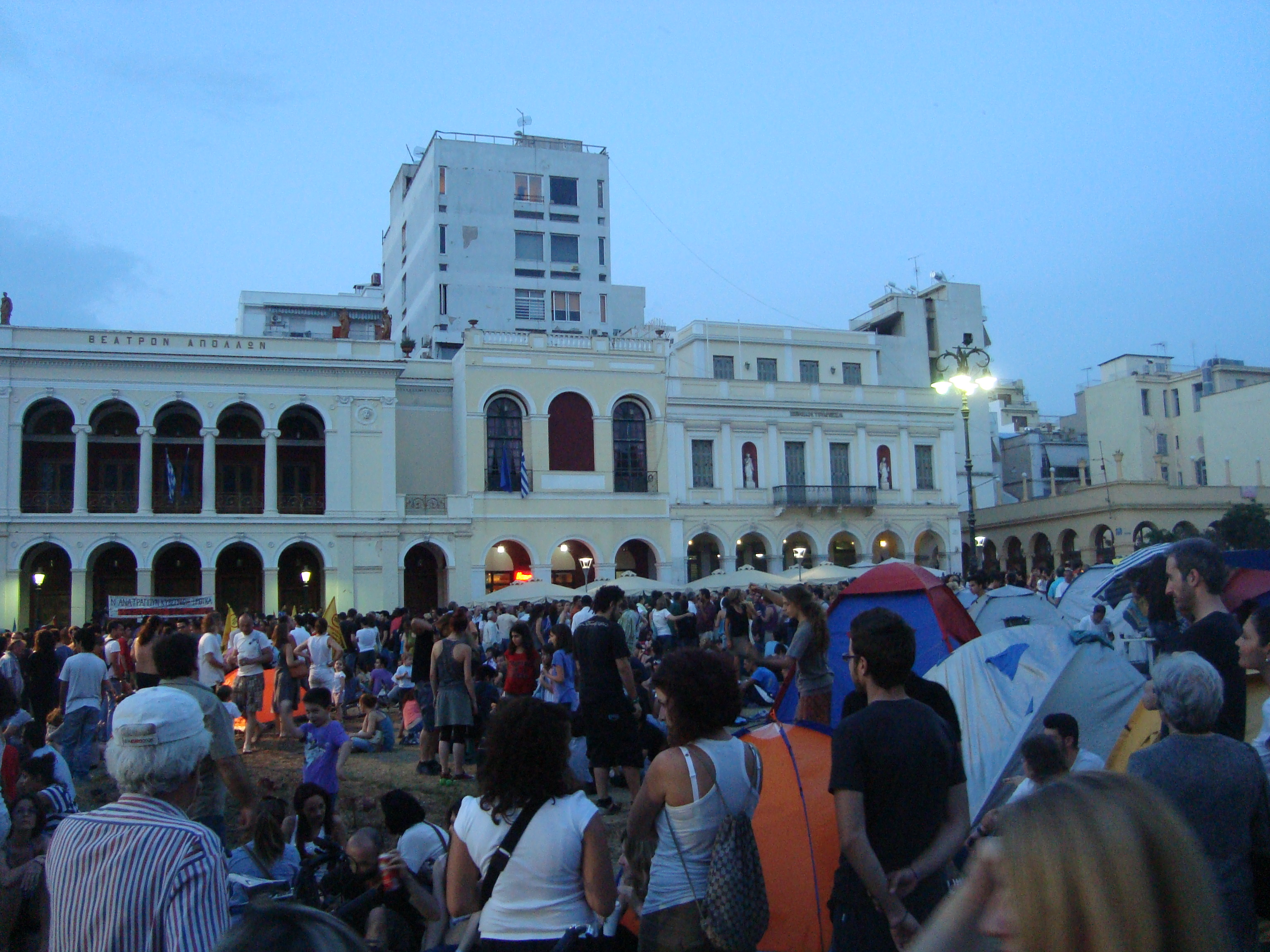 Indignados in Patras 2011